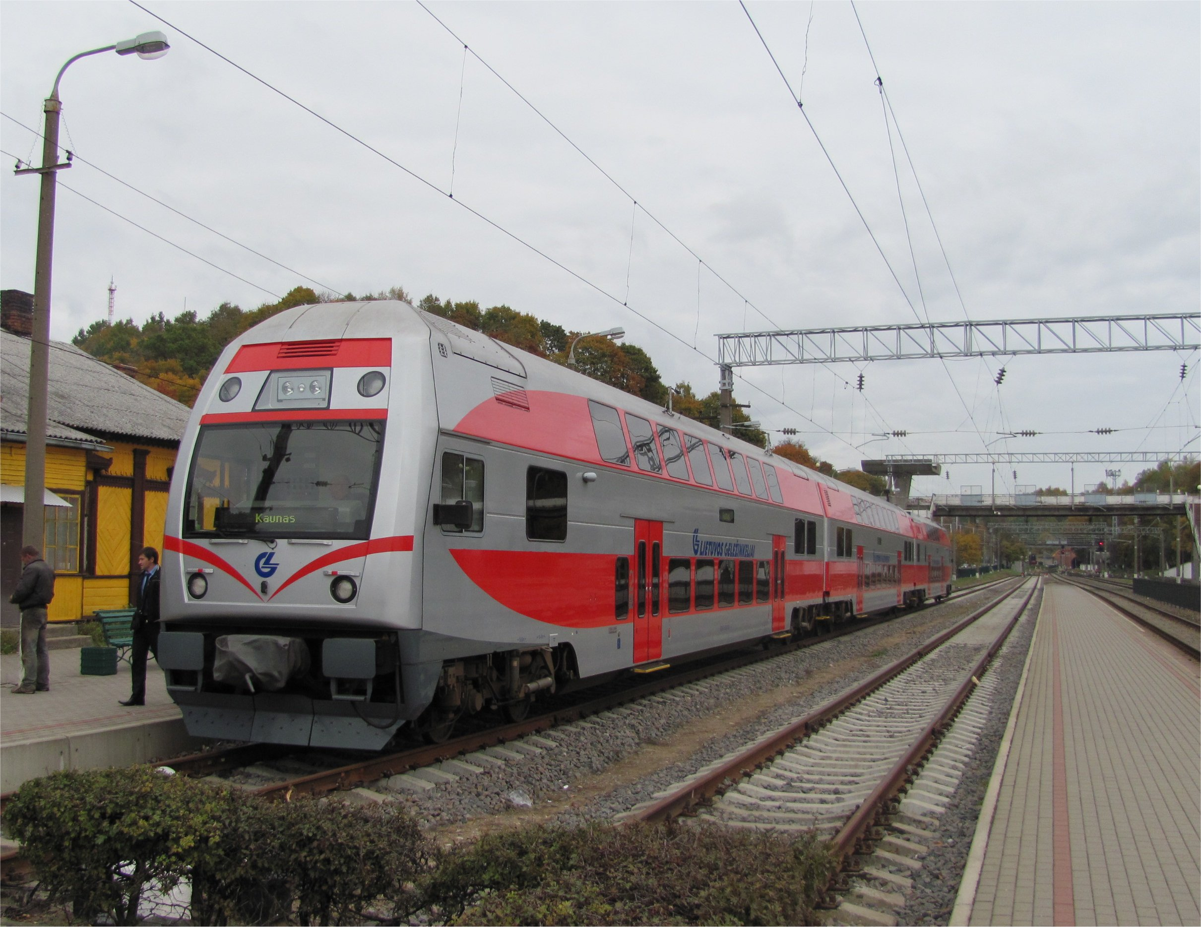 New train of Lietuvos Gelezinkeliai between Vilna-Kaunas, fotographed at Kaunas railway station 10/2010. These units (444, 2010, no 00175, 307, 2010, no 00176) were manufactured by Škoda Vagonka a.s., Ostrava, Czech Republic in 2010. (Additional photos available)